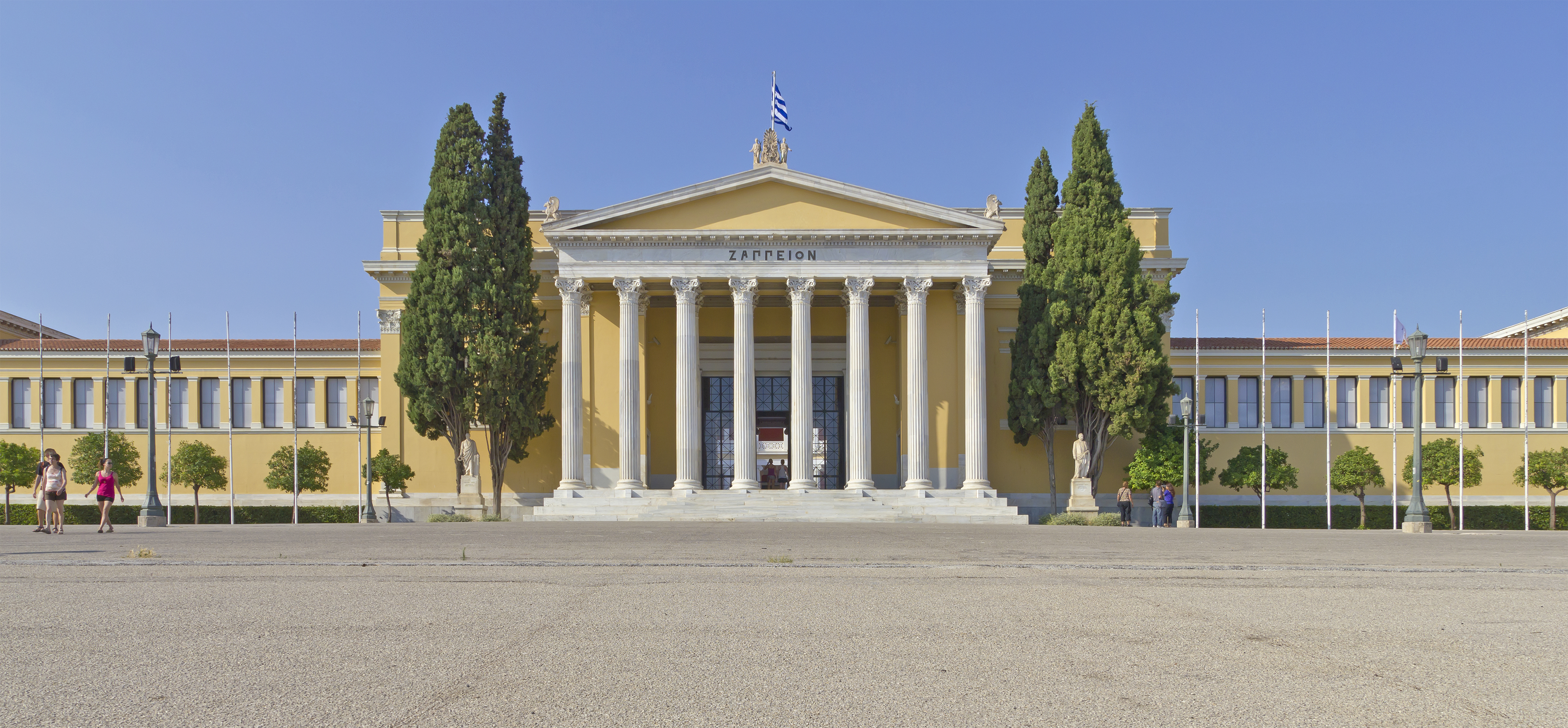 Zappeion in Athens (Attica, Greece)